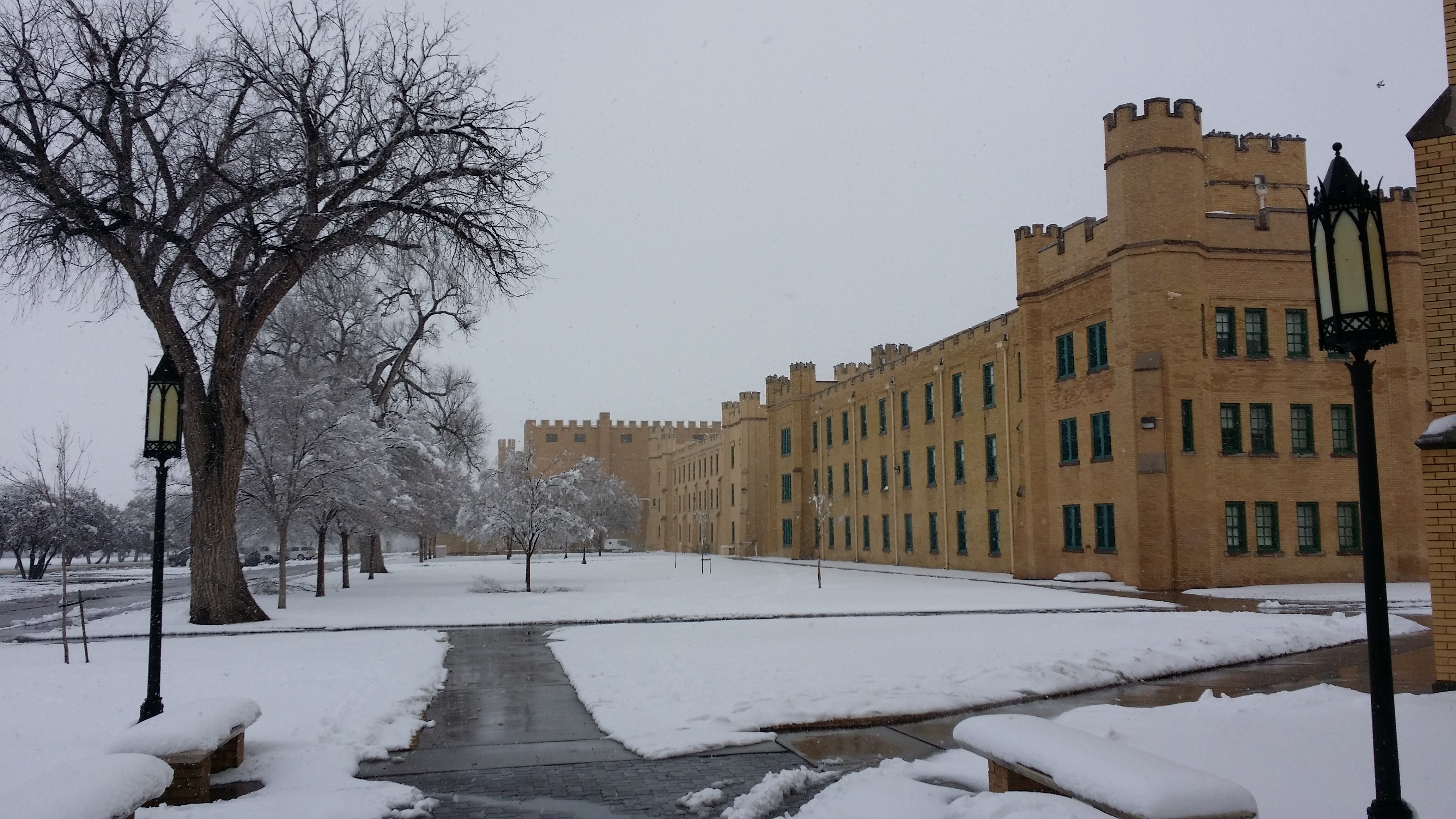 View of the north side of Hagerman Barracks with Pearson Auditorium in the background.